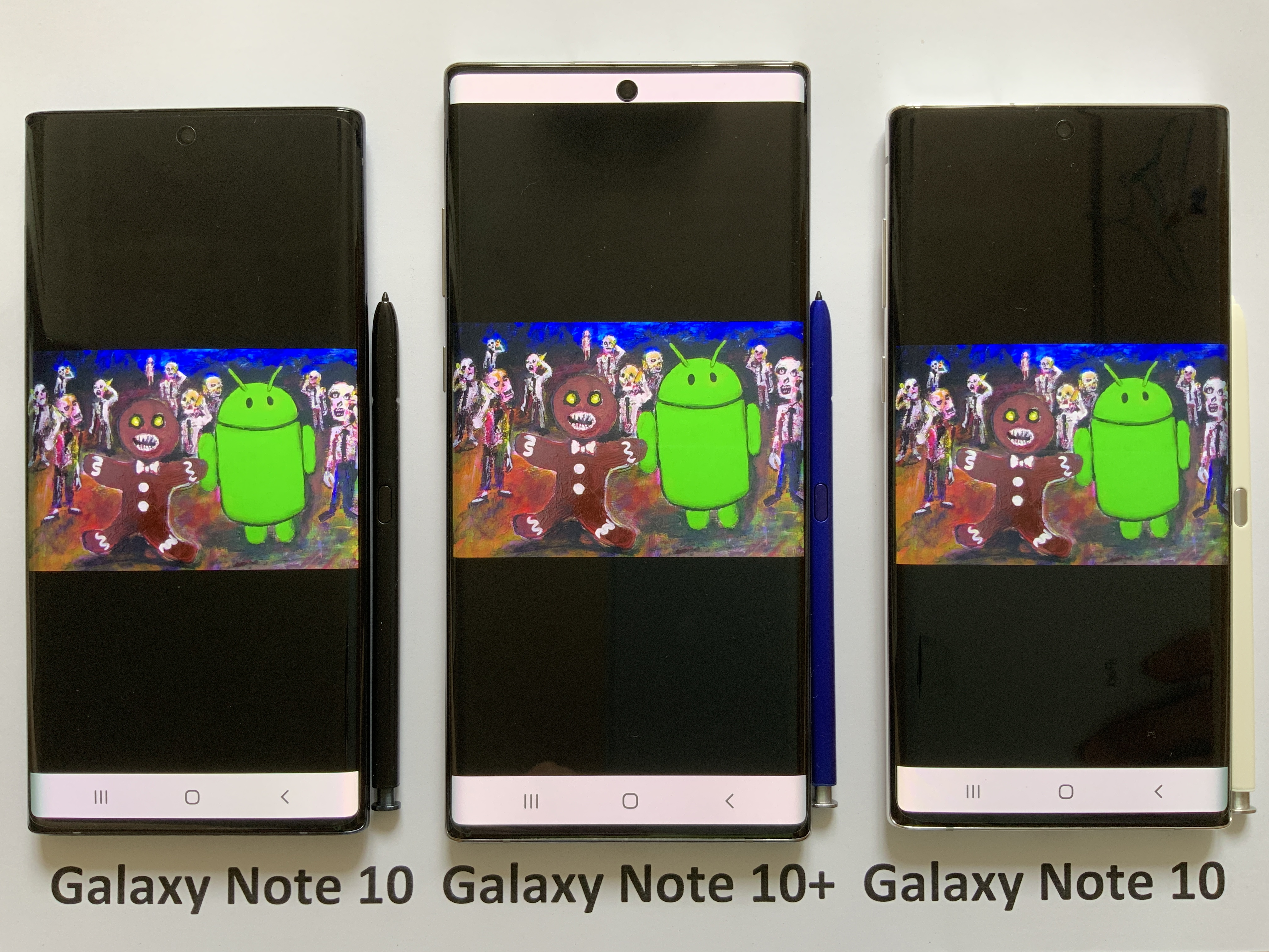 Android Gingerbread Easter eggs shown on Samsung Galaxy Note 10